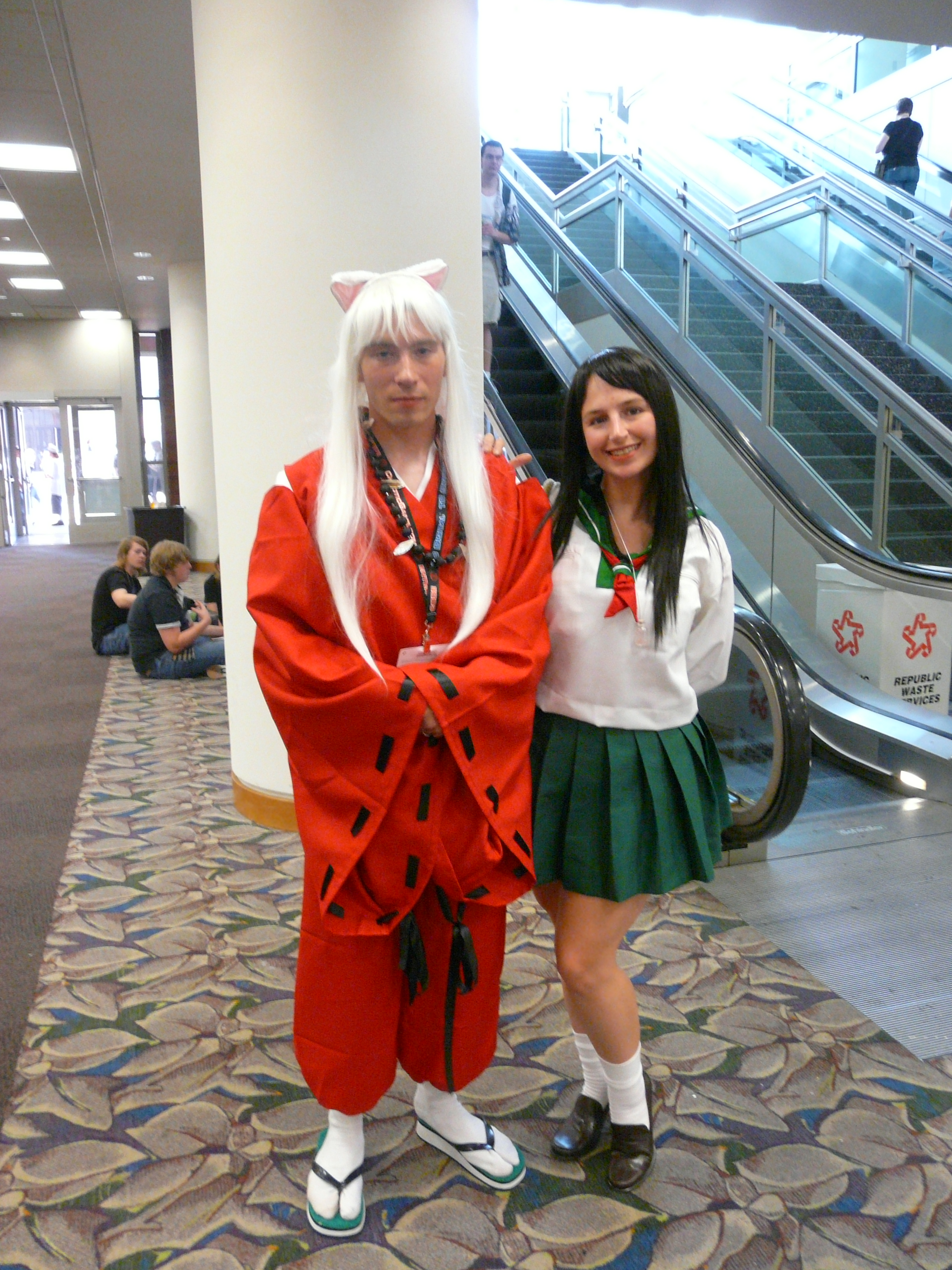 Picture of Gen Con Indy 2008 in Indianapolis, Indiana, USA.